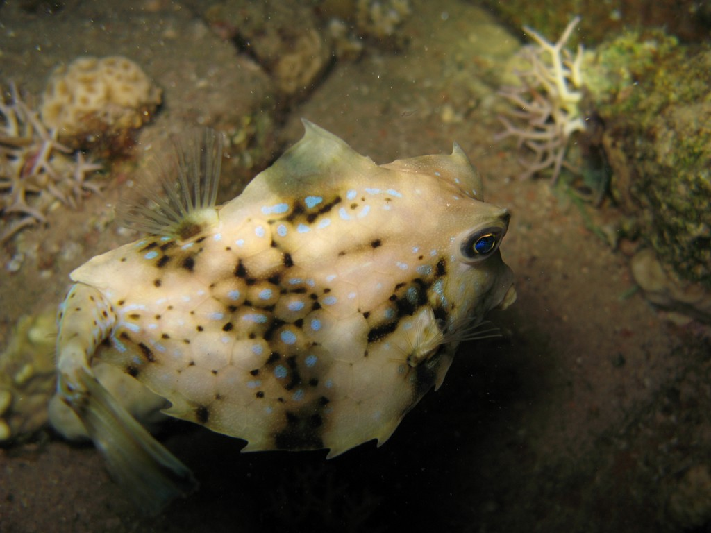 Humpback Boxfish - Tetrasomus gibbosus; Egypt-Sinai-Dahab